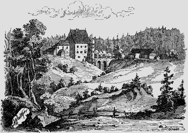 Castle Rothenstein before the collapse in 1873, Landkreis Unterallgäu, Bavaria